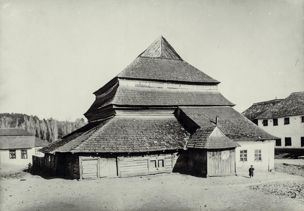 The wooden synagogue in Gwoździec/Hvisdetz